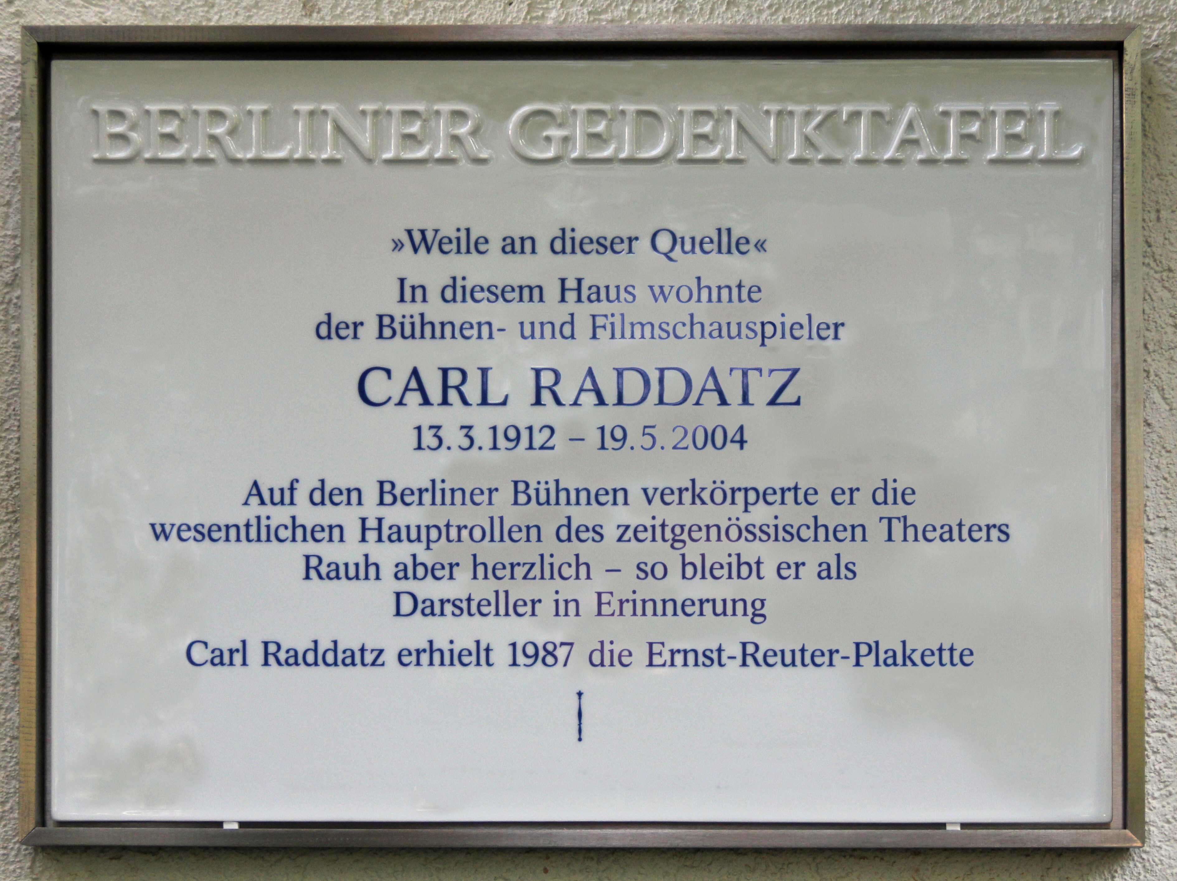 Berlin memorial plaque, Carl Raddatz, Am Schülerheim 6, Berlin-Dahlem, Germany